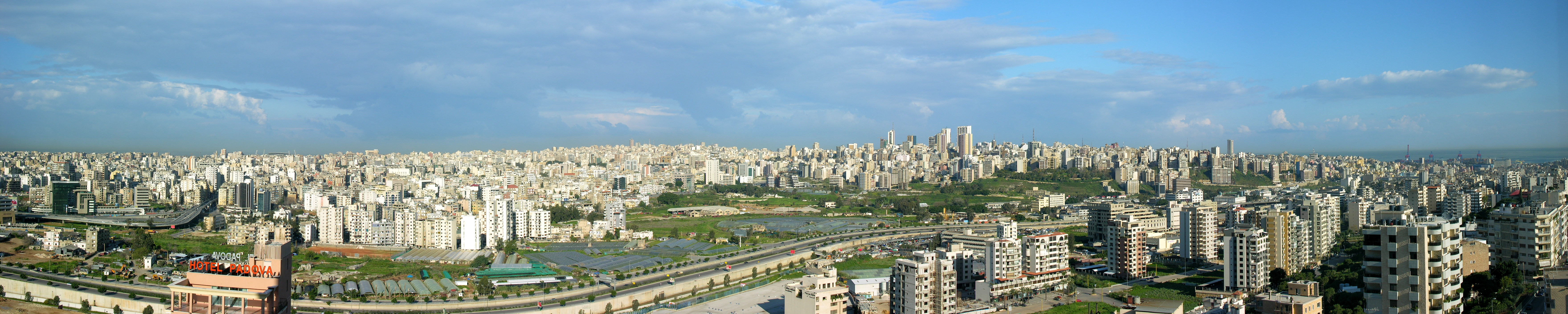 Lebanon, View onto Beirut from Hotel Metropolitan